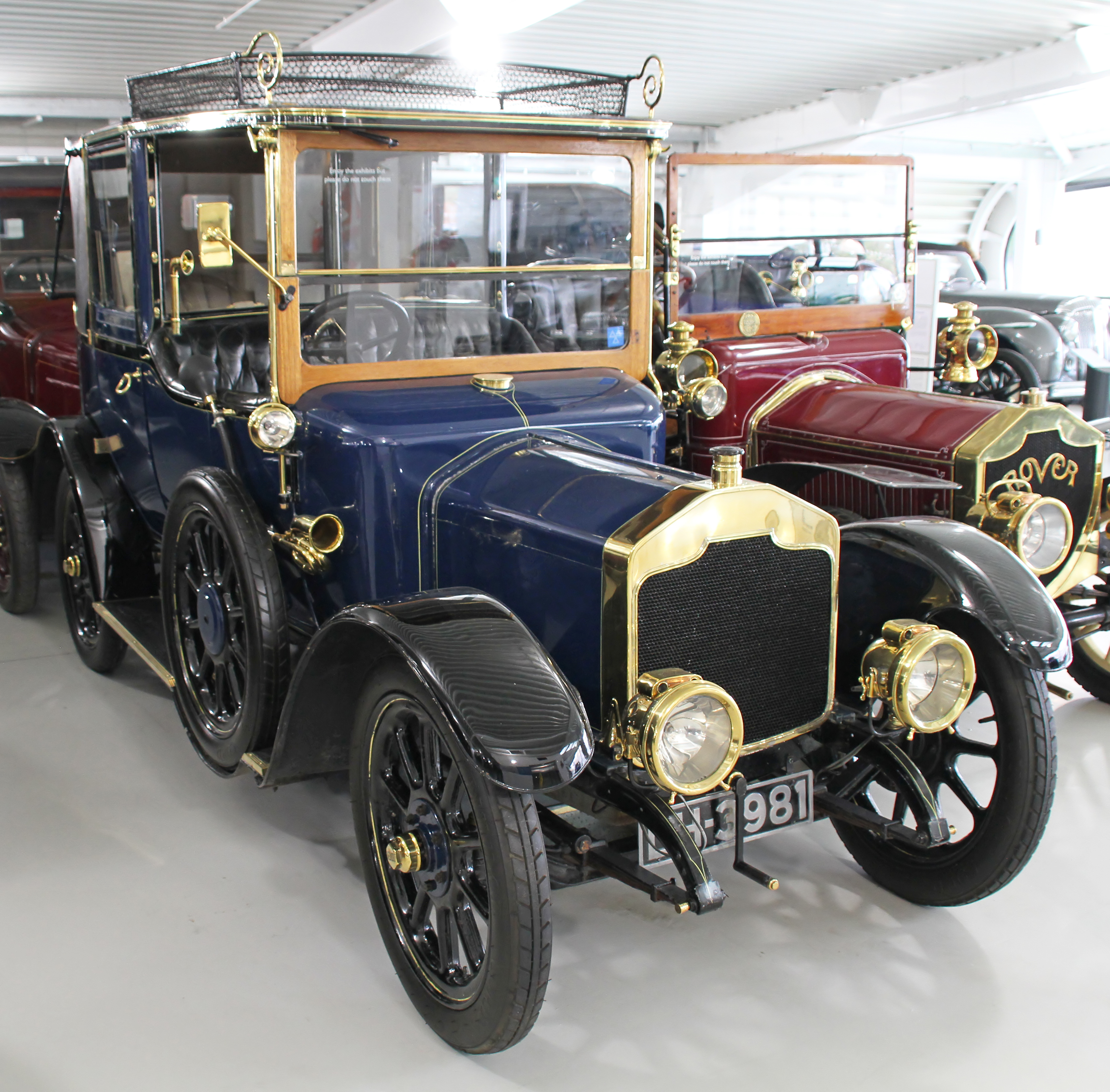 1912 Rover 12hp landauletteStratford-on-Avon District, England, United Kingdom